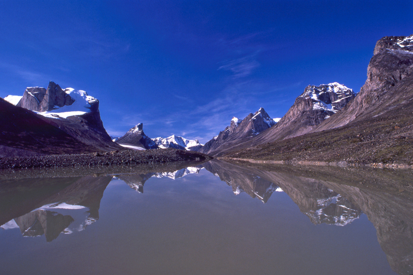 From Summit Lake's narrow SW end and Akshayuk Pass, W:Auyuittuq National Park, Baffin Is. From left to right down the Weasel River: Breidablik Peak, Thor Peak, Unnamed, Tirokwa Peak (at end), Mt. Odin (partly hidden), Unnamed, Mt. Northumbria, Unnamed (some peaks may be wrong).